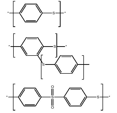 Polyphenilsulfone polymer units